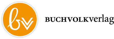 The logo of Buchvolk-Verlag